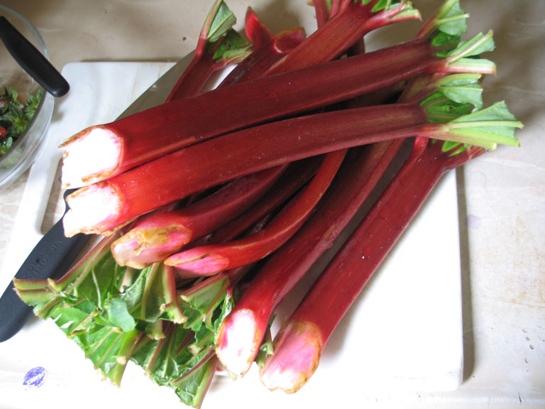 store purchased rhubarb stalks